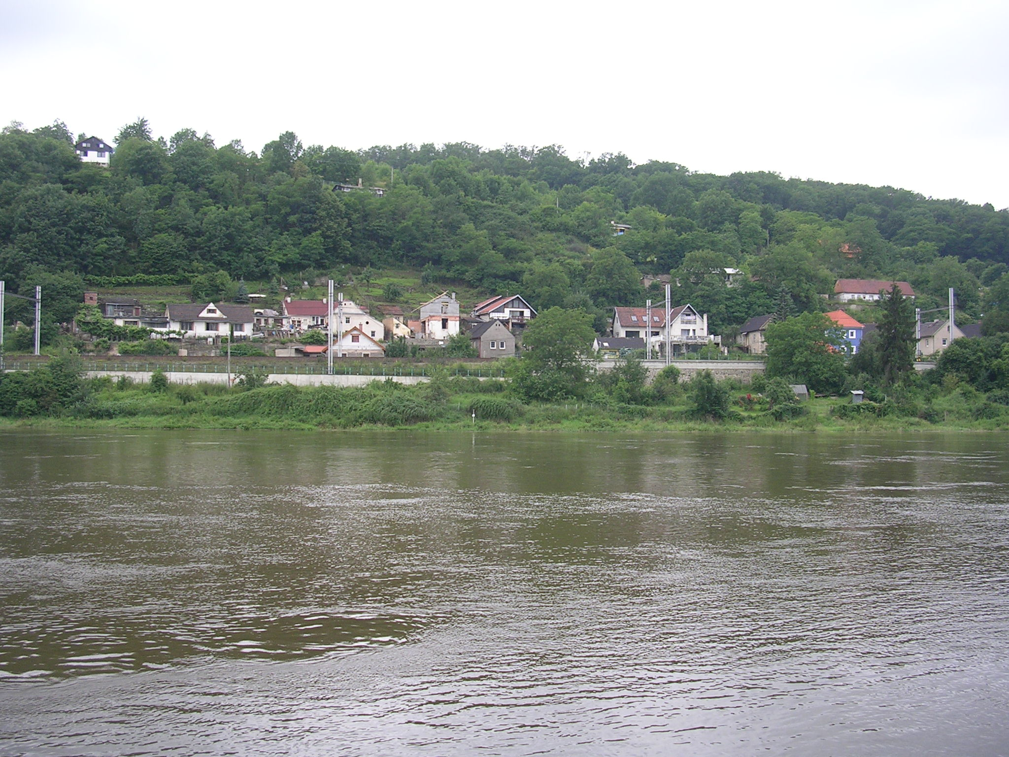 Dolany, Mělník District, Central Bohemian Region, the Czech Republic. - Google Maps - Google Earth